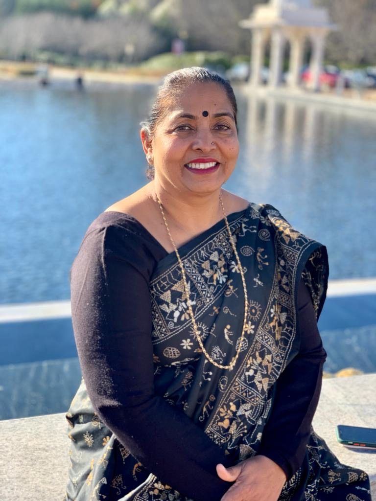 राज्य मंत्री (अध्यक्ष पिछड़ा आयोग) उत्तराखंड सरकार